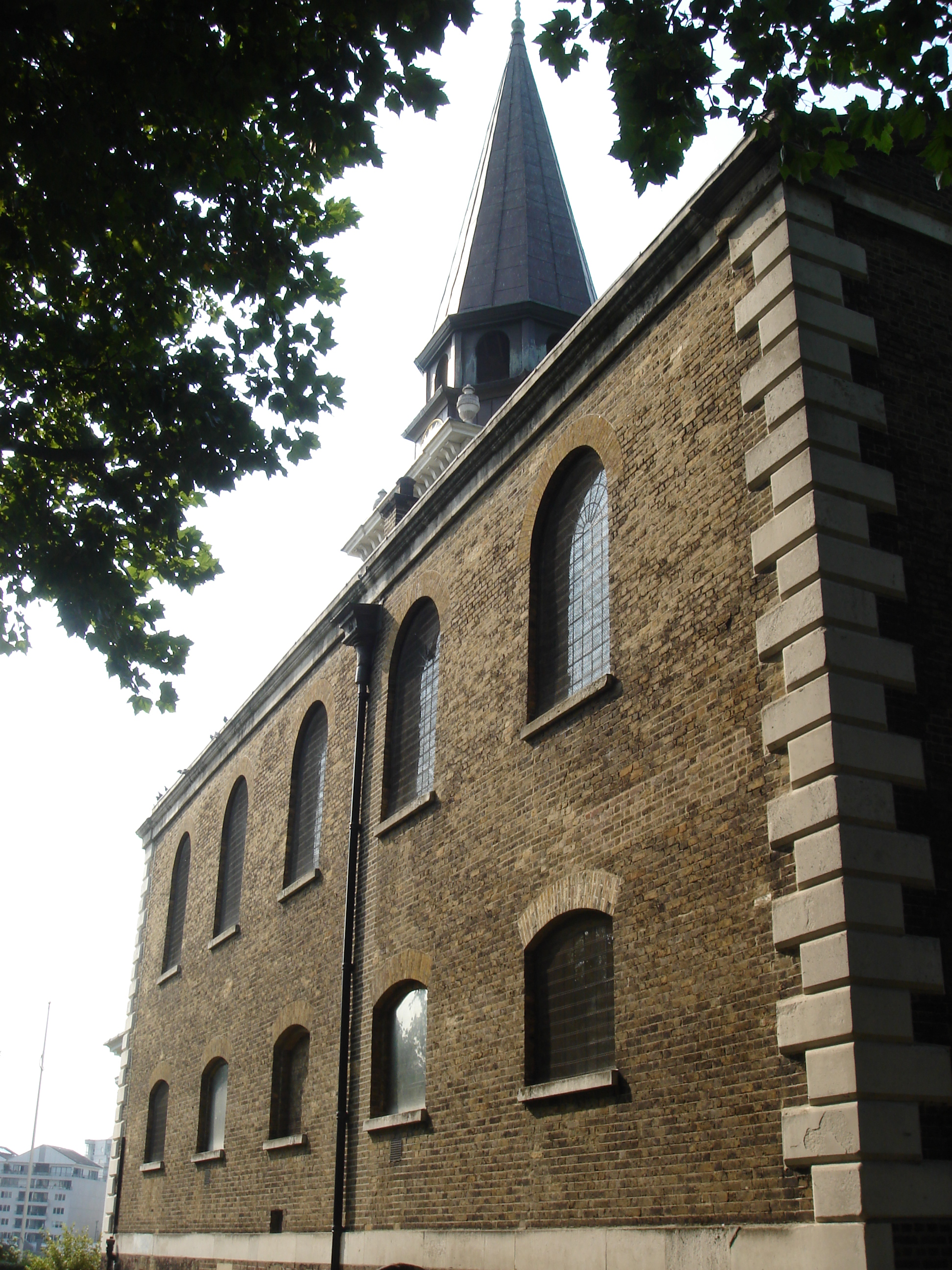 St Mary's Church, Battersea, London